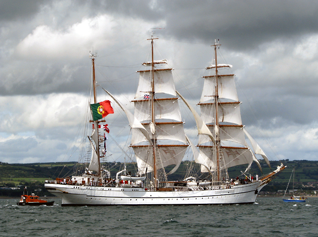 Sagres; in Belfast Lough - Tall Ships Belfast 2009.Tall ship 'Sagres' in Belfast Lough as part of the 'Parade of Sail' event to mark the end of the Tall Ships event in Belfast. The 'Sagres' was built in 1937 in shipyard of Blohm & Voss in Hamburg, Germany. Damaged by a mine in WW2 she was taken to Bremerhaven shipyard and captured by the U.S. forces in 1945. In 1948 she was given to the Brazilian Navy and was used as a sail training ship under the name 'Guanabara'. She was purchased by Portugal to replace the old sail training ship Sagres and is sometimes known unofficially as the 'Sagres II'.